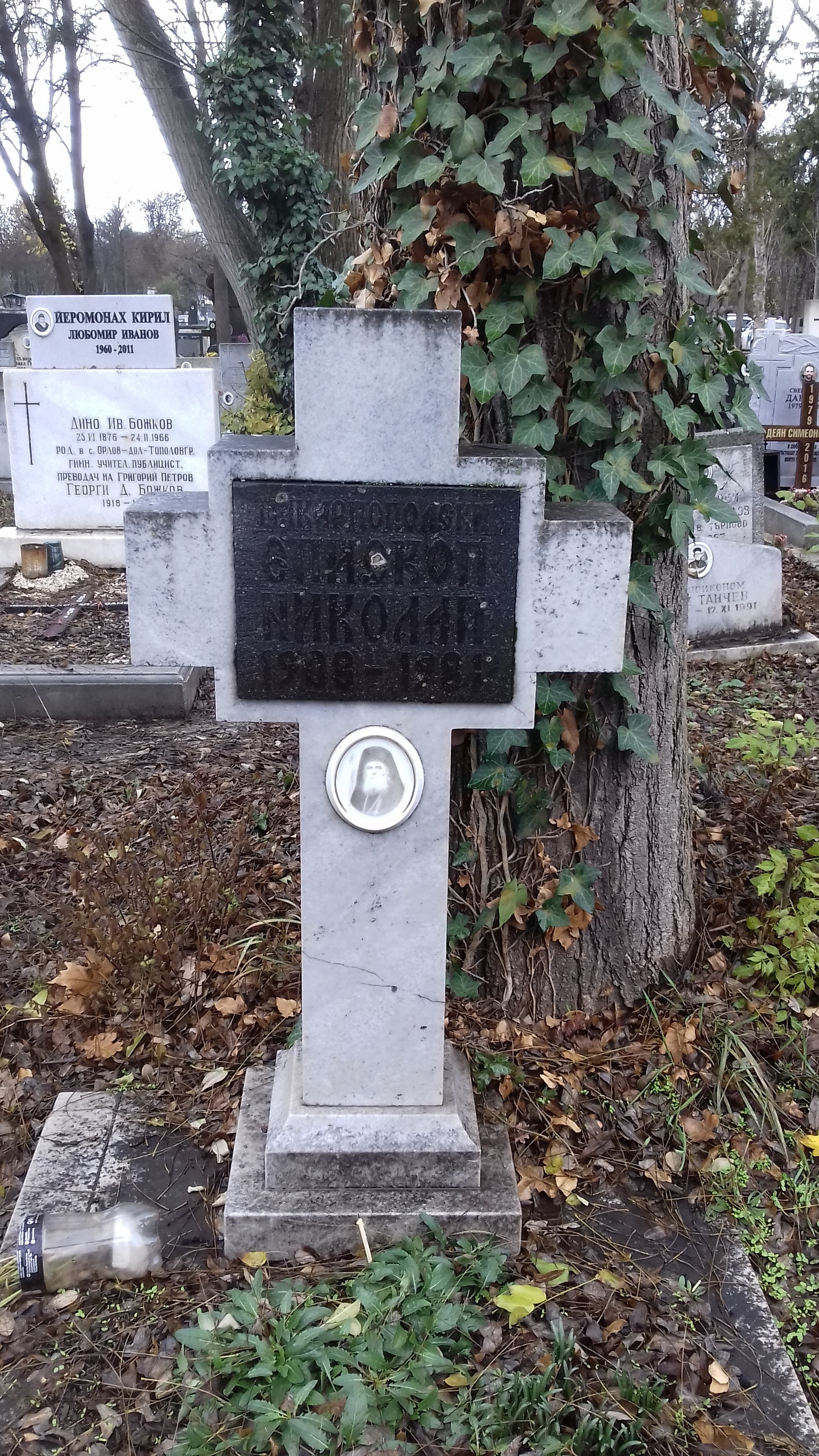 Nicholas of Makariopolis Grave